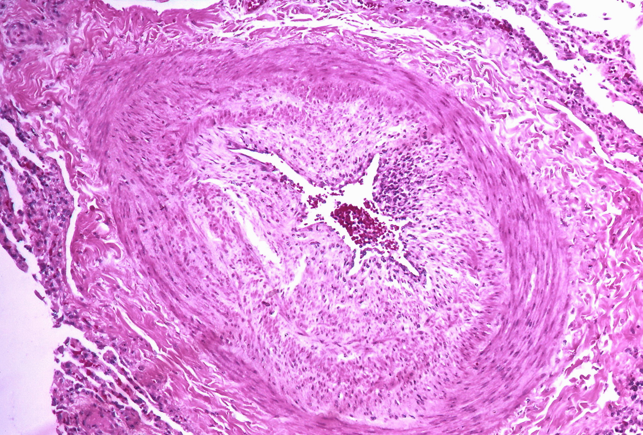 Marked intimal and medical thickening